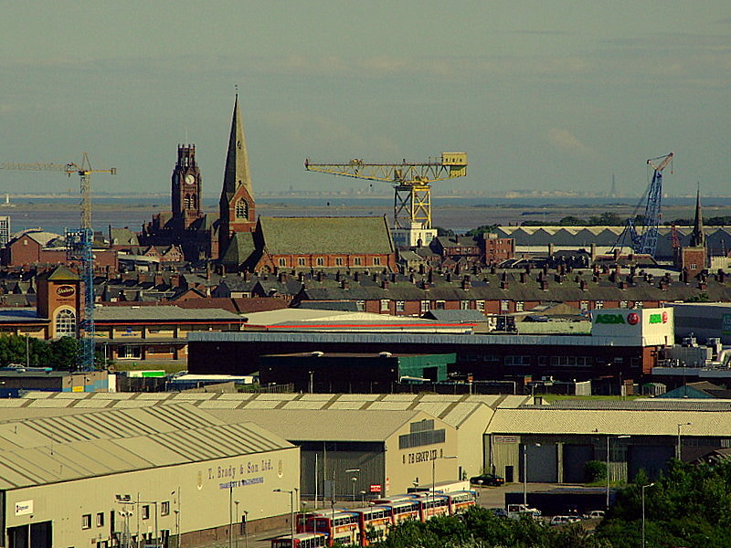 The central portion of Barrow-in-Furness' skyline (Barrow Town Hall, Holker Street, Stollers Furniture World, St. James' Church and St. Mary of Furness are all distinguishable). Blackpool Tower can also be seen in the distance.